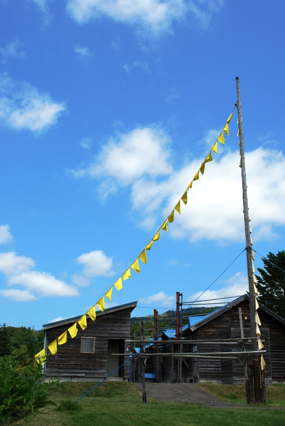 The_Yellow_Handkerchief at yubari